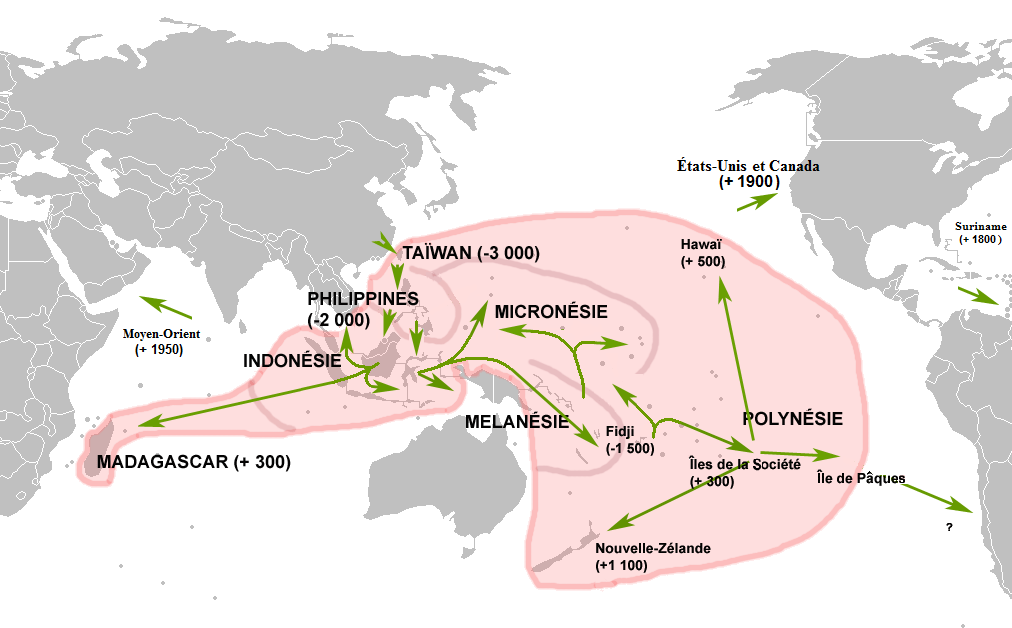 Map of expansion of Austronesian languages. Based on the Atlas historique des migrations by Michel Jan et al. 1999 and "The Austronesian Basic Vocabulary Database" 2008